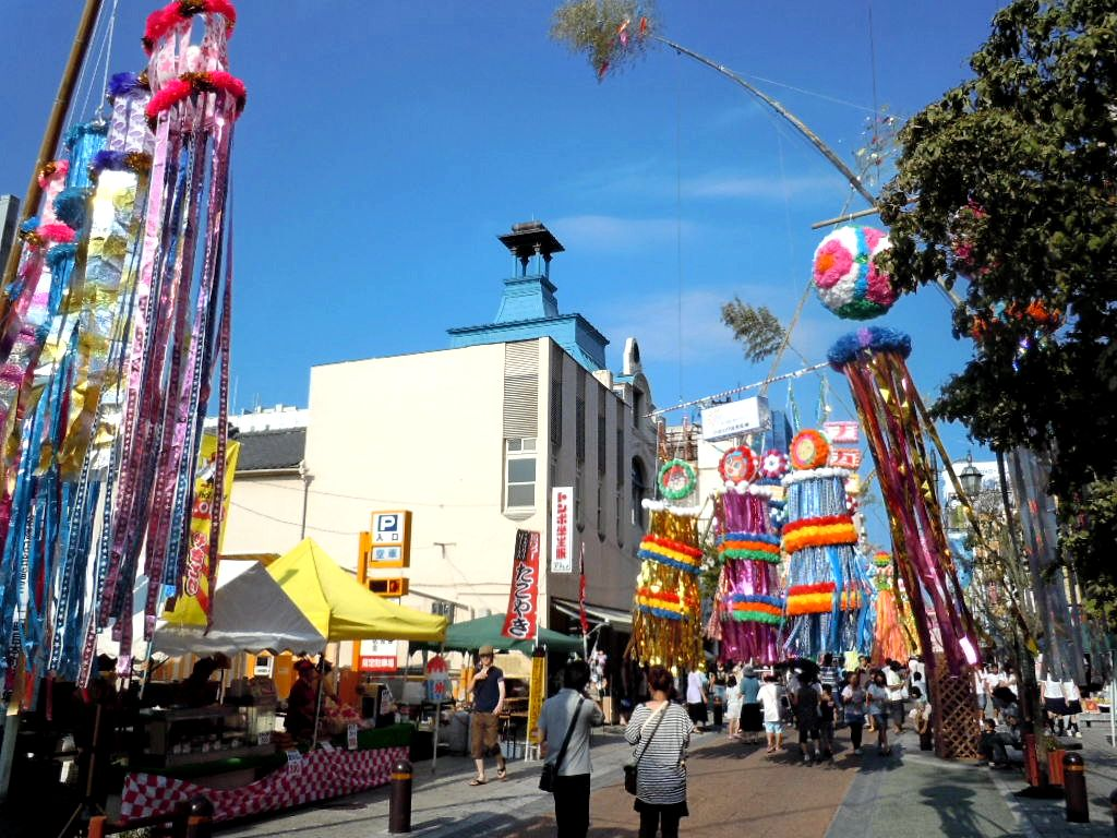 The 2010 Taira Tanabata Festival in Iwaki City, Fukushima Prefecture, Japan